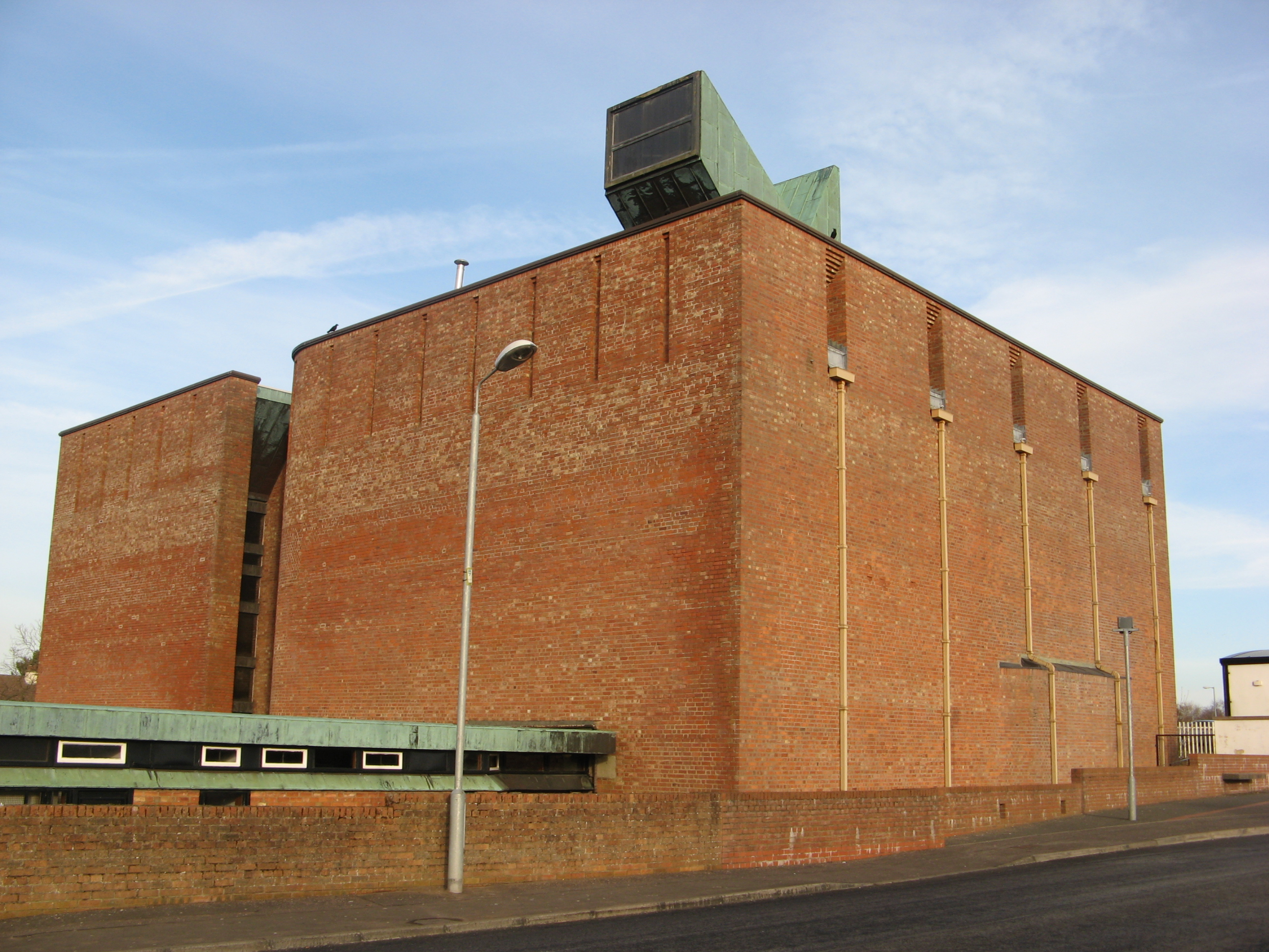 St Bride's Catholic Church, East Kilbride. Designed by Gillespie, Kidd & Coia in 1962-63. View from south-west.